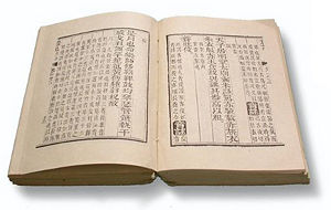 I-ching